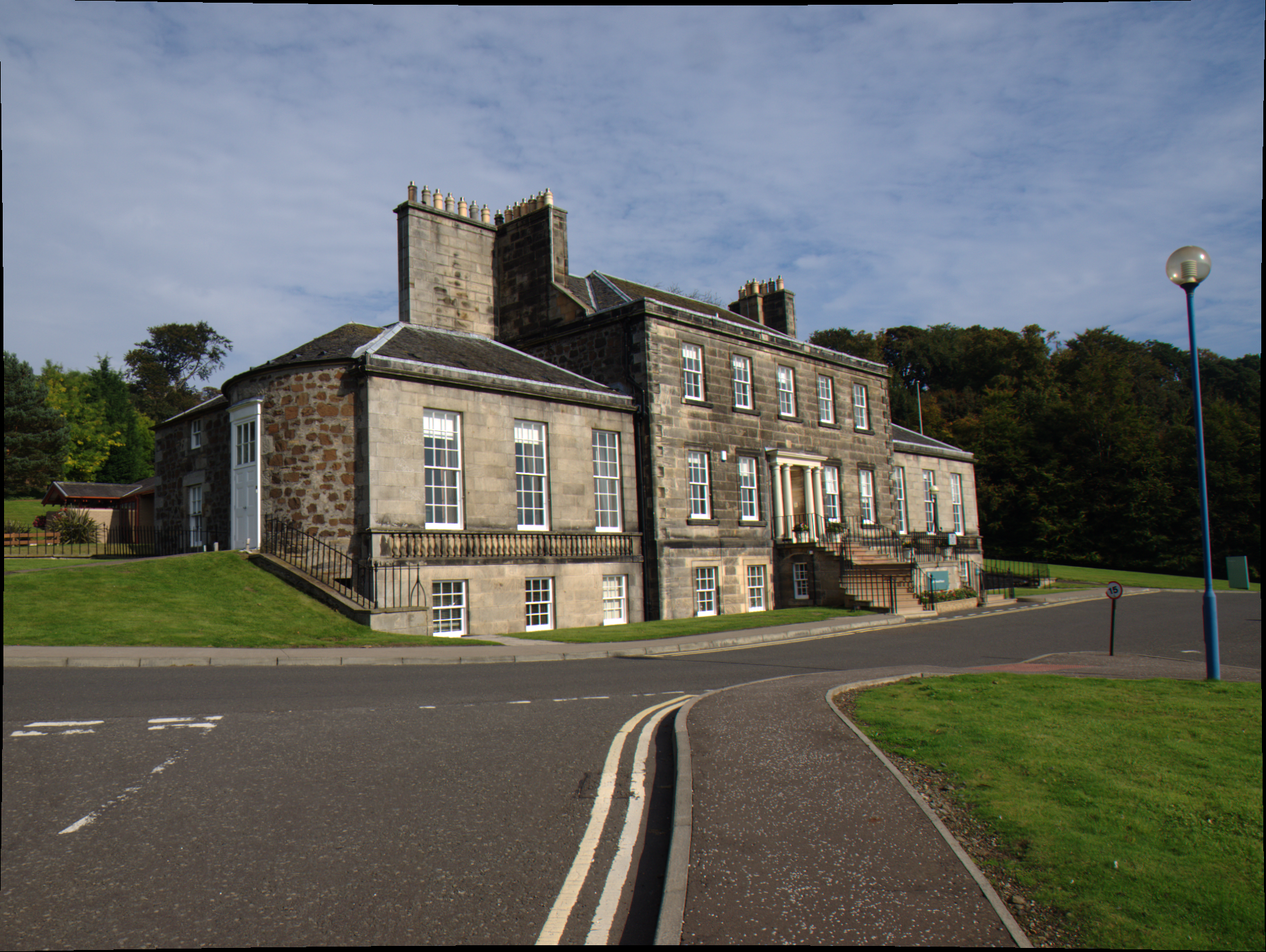 Beechwood House (Murrayfield Hospital)